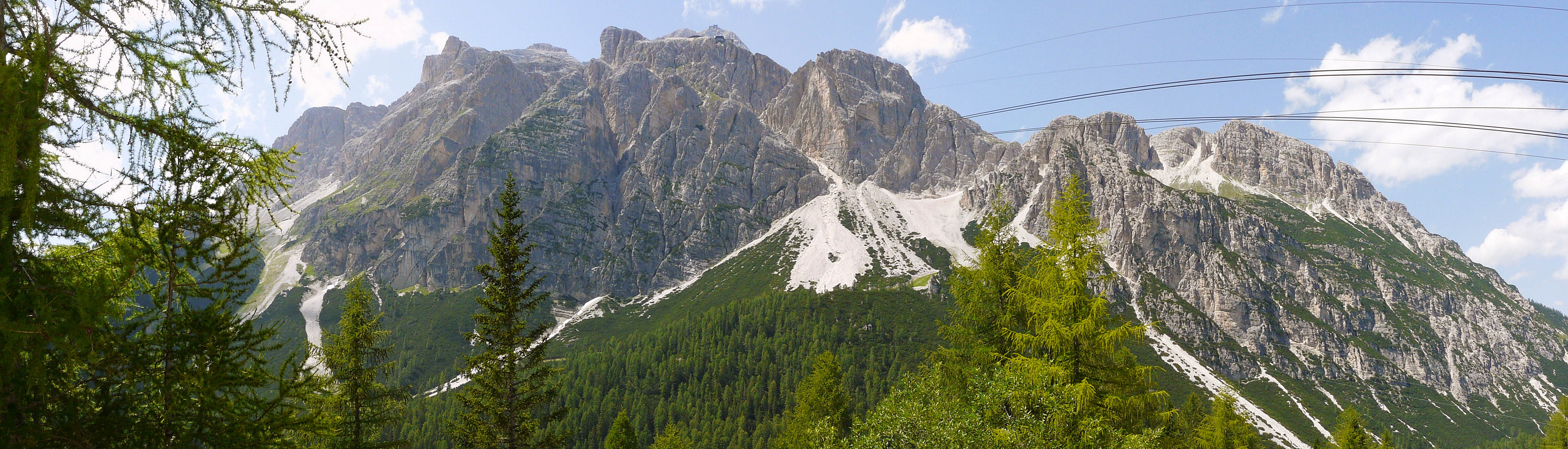 Tofane mountain group as seen from Col Drusciè in 2009 July.